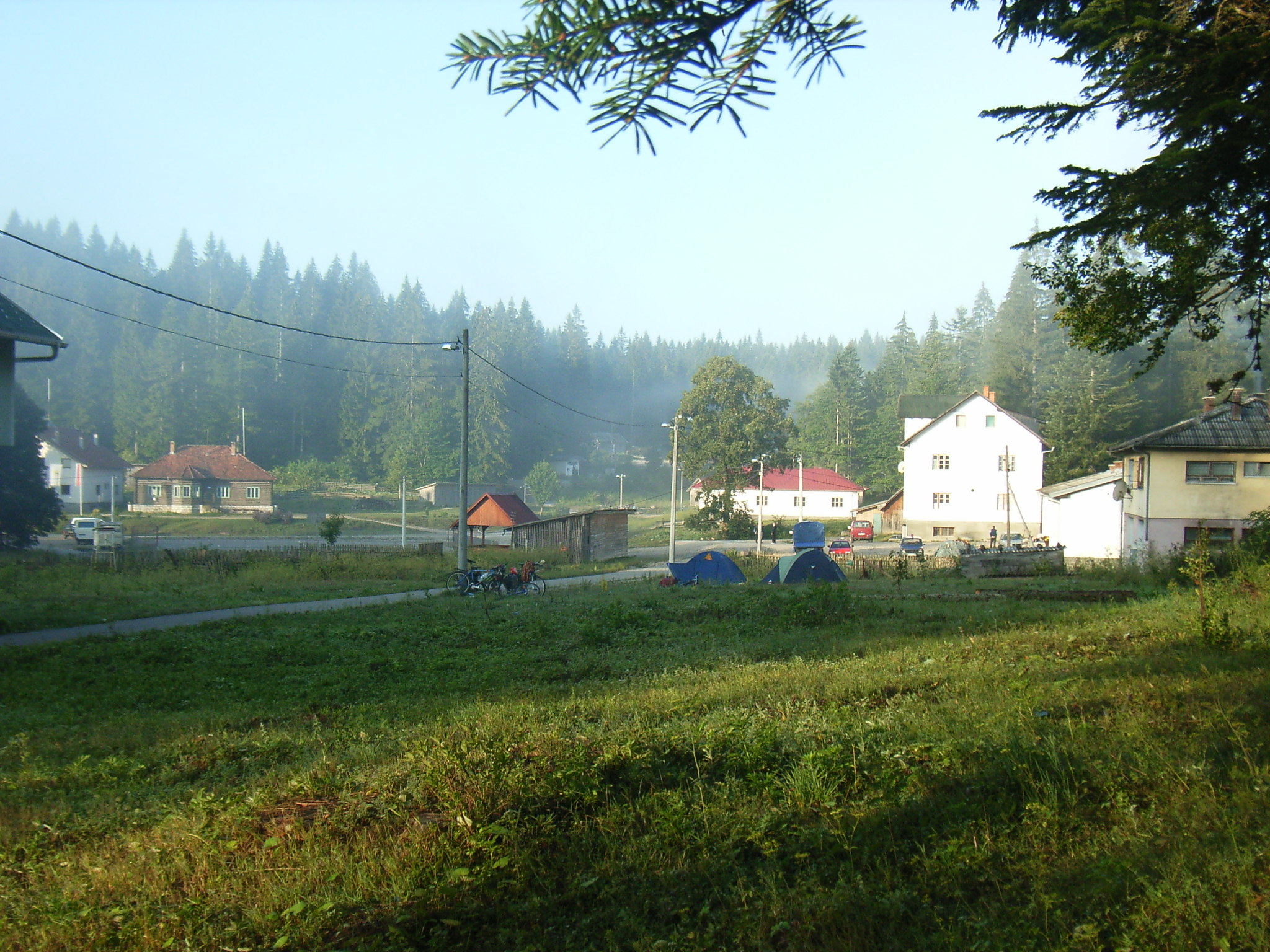 The village of Potoci, official centre of Istočni Drvar municipality in Republika Srpska.